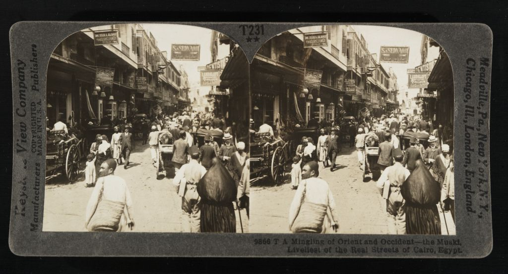 People walking in the Muski, a busy street surrounded by shops and business in Cairo Egypt